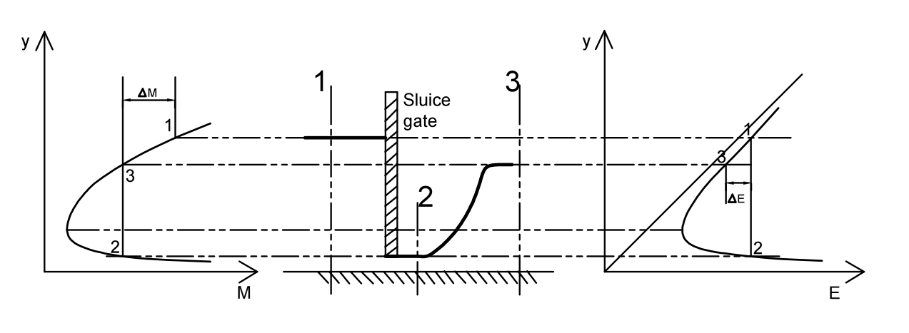 Hydraulic Jump with Sluice Gate